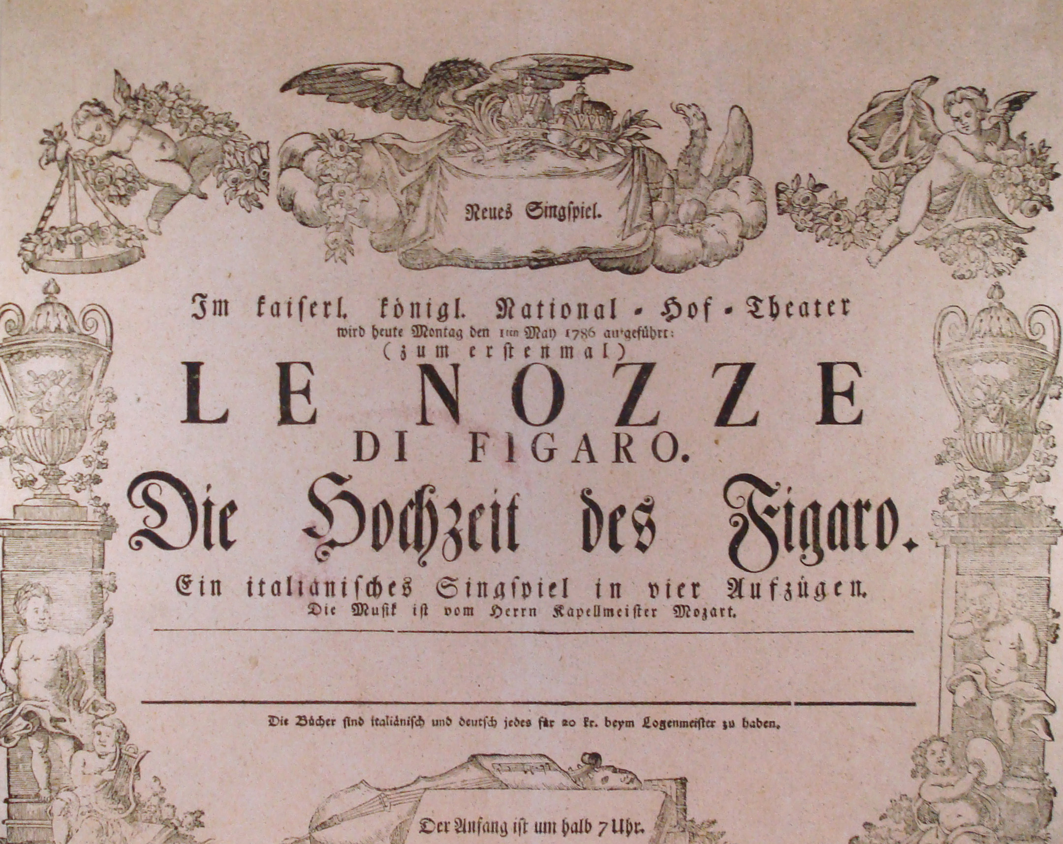 An original poster for Wolfgang Amadeus Mozart's opera, The Marriage of Figaro